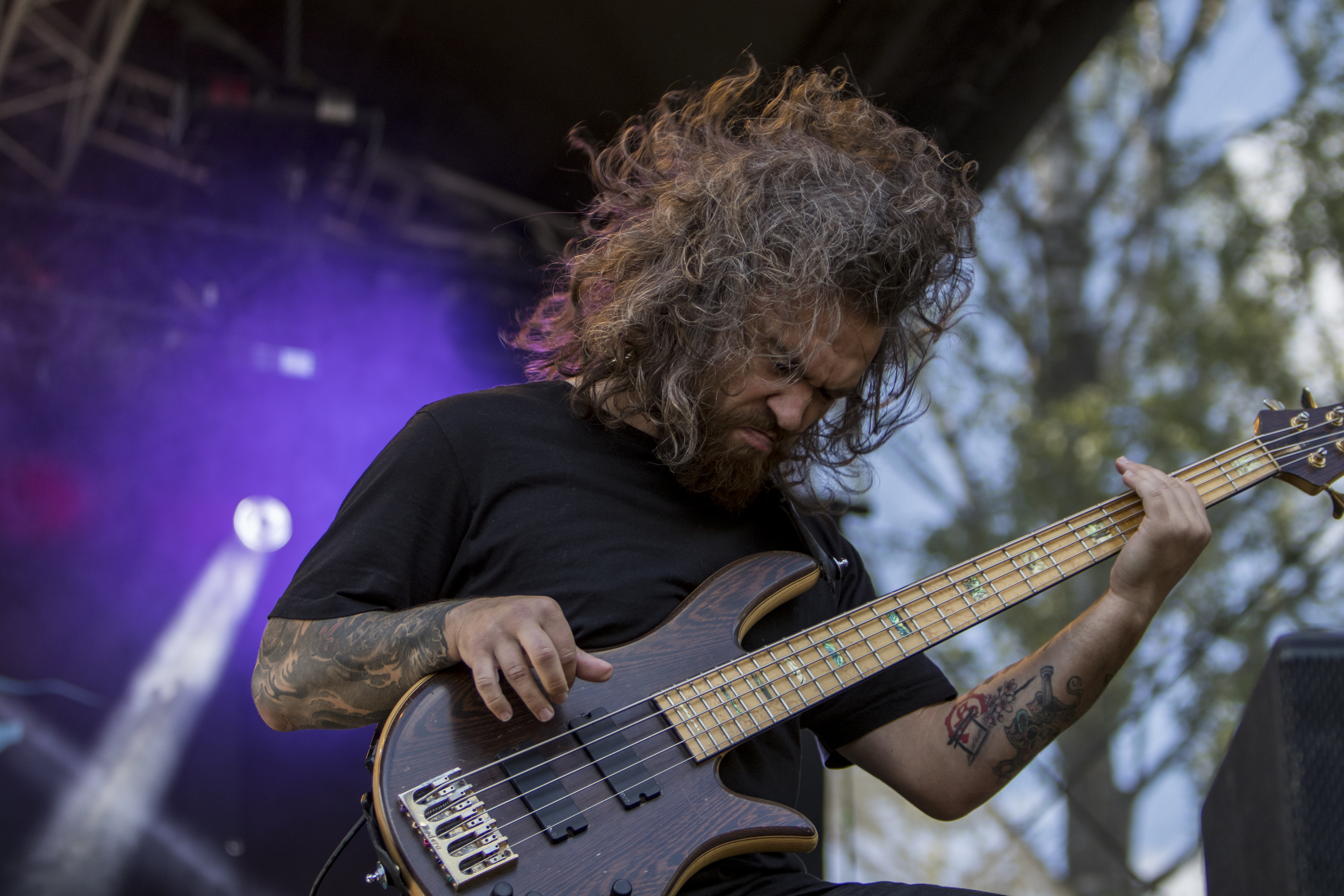 Jinjer at John Smith 2019 festival in Peurunka, Finland